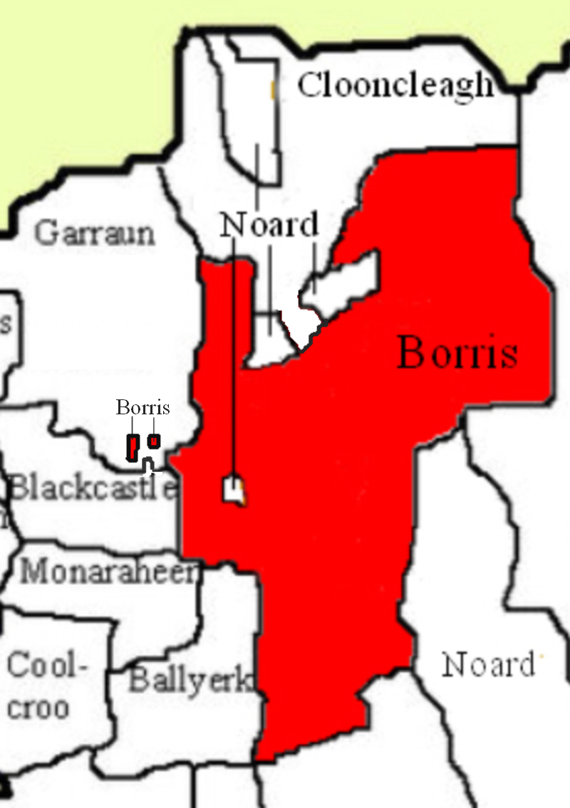 Borris townland and the exclaves in its immediate vicinity